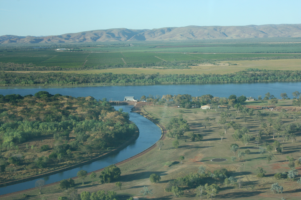 Pump station on the ORD river, Kununurra, Western Australia